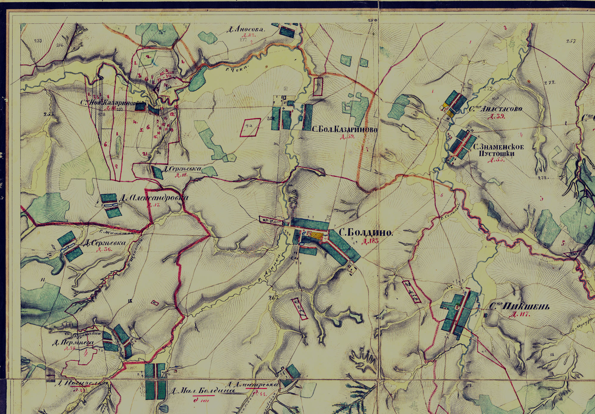 Bolshoe Boldino and neighbourhood. Mende's map fragment.